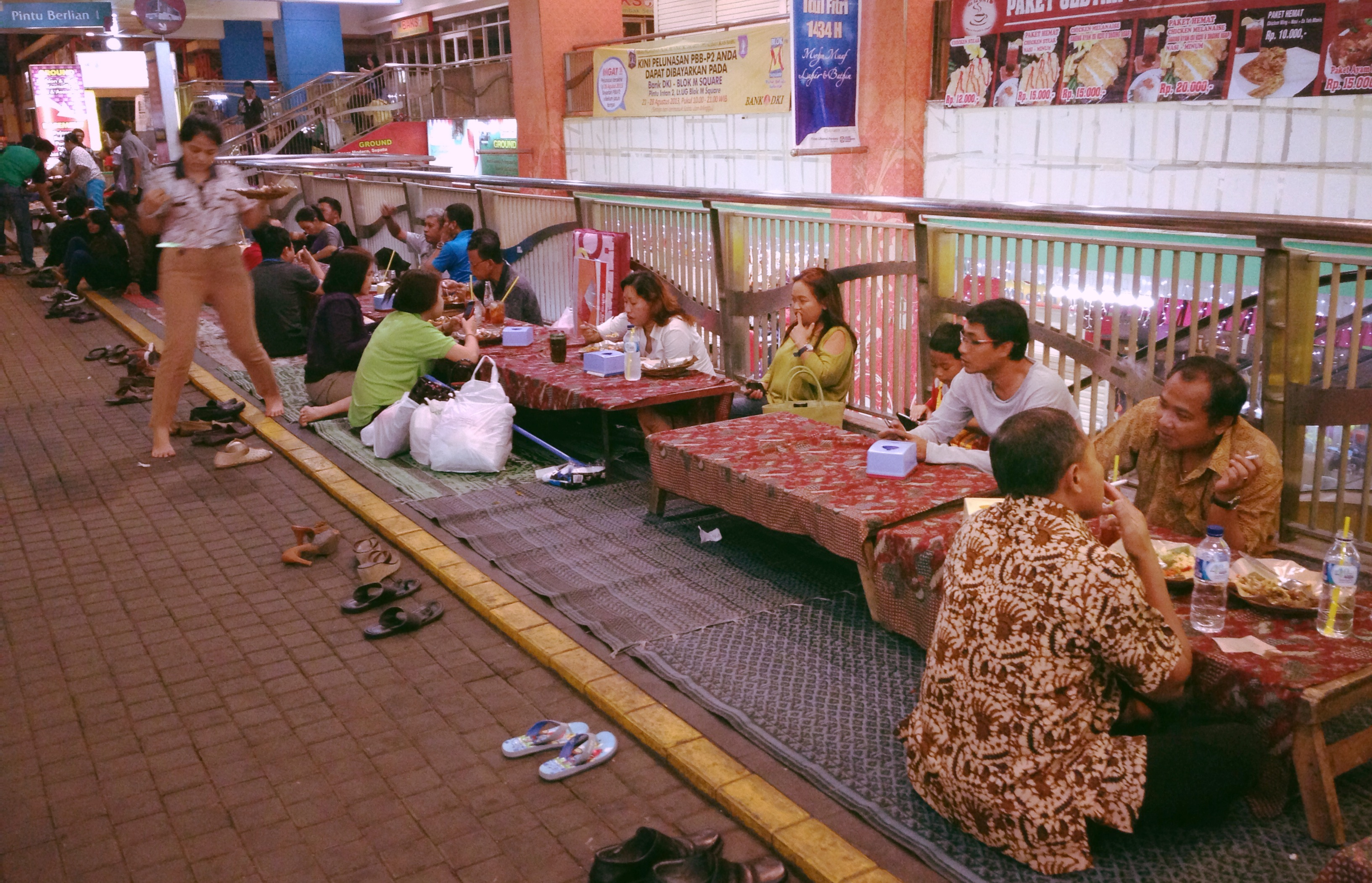 Lesehan, Indonesian tradition of selling/eating by sitting on the floor/on a mat